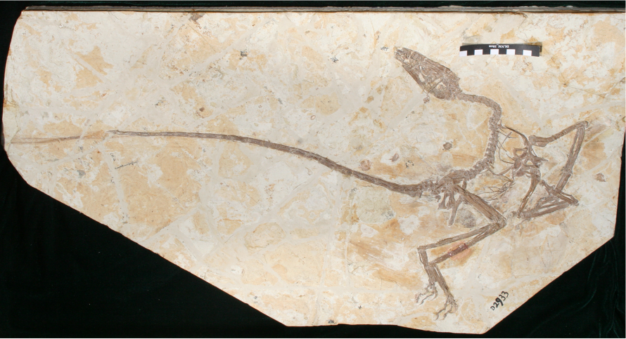 Fossil includes two tail feathers at the left of the image.